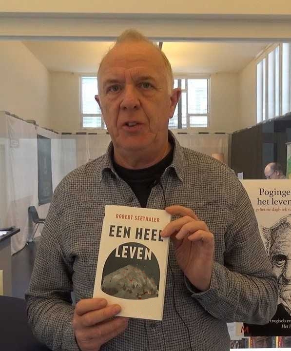 Author Jos Geysels